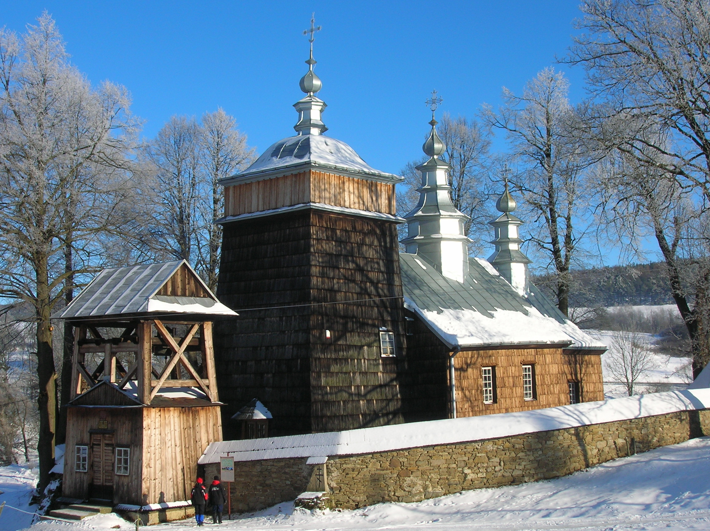 Orthodox church in Zdynia, Reg. No nr A-597 z 10.06.1989